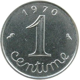 French 1 centime (1/100 of a franc).